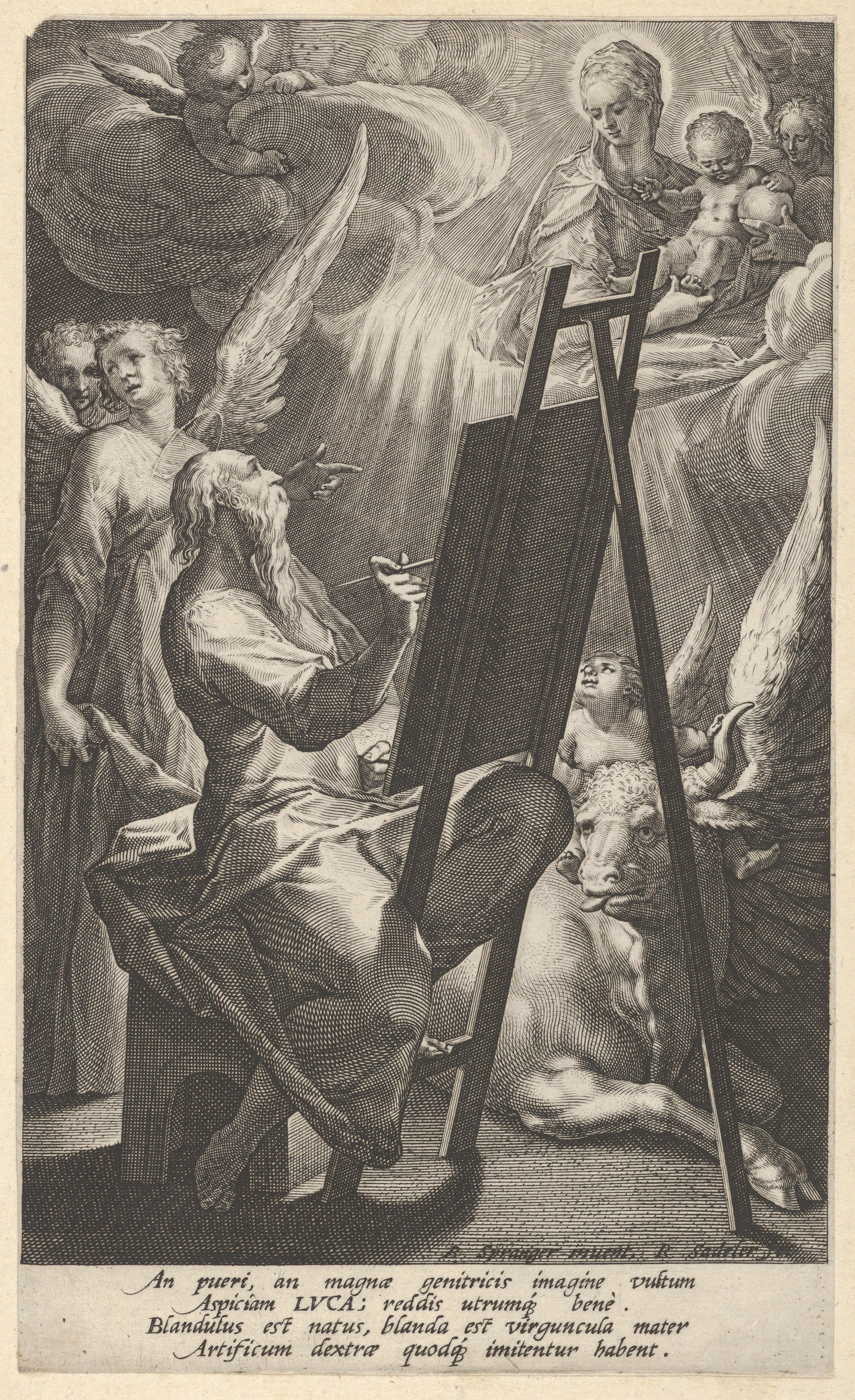 Print; Prints